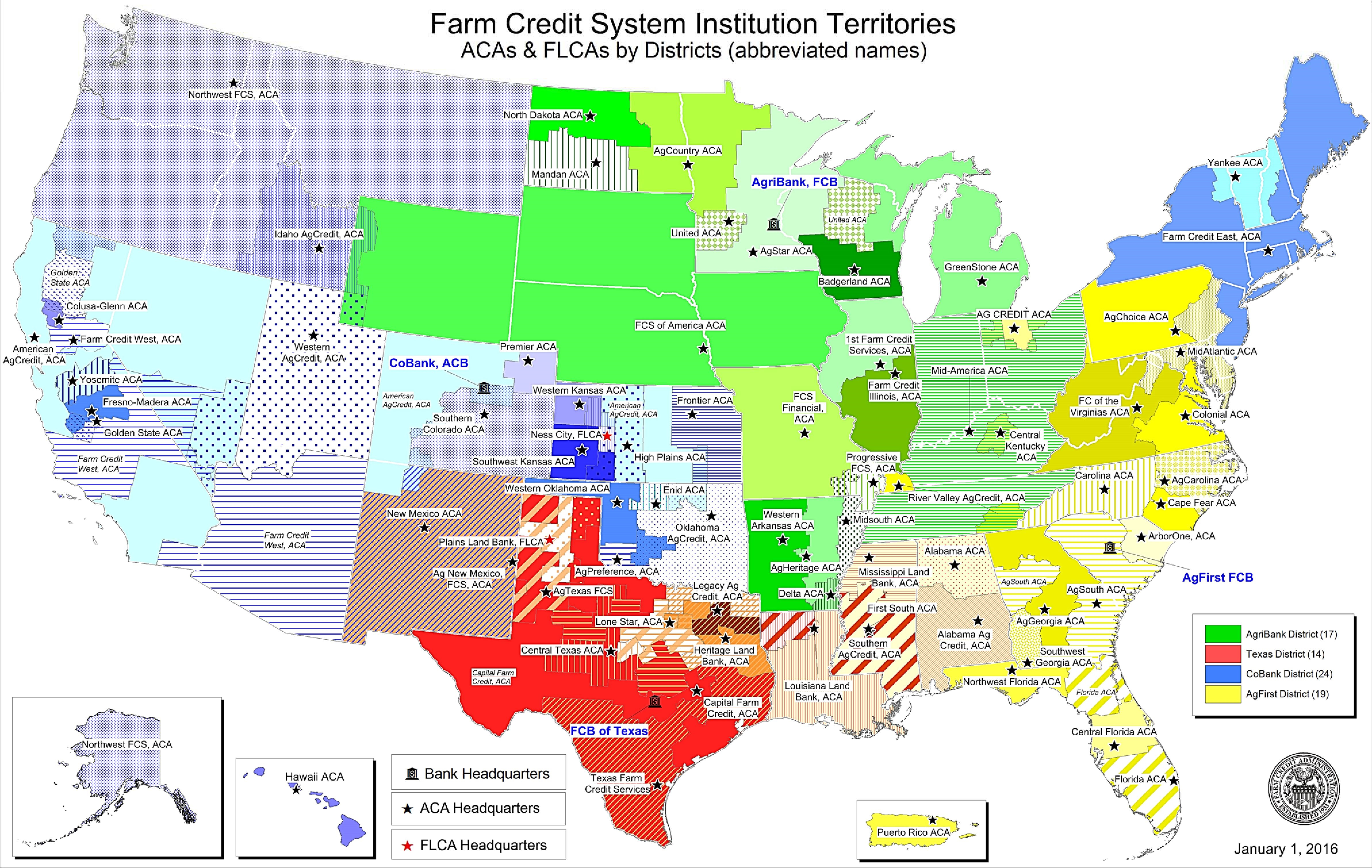 FCS ACA and FLCA chartered territories